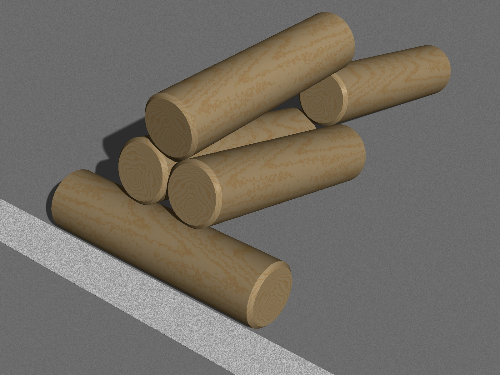 One of the patterns (Cannon/Пушка) in the game of Gorodki. Created with PovRay.